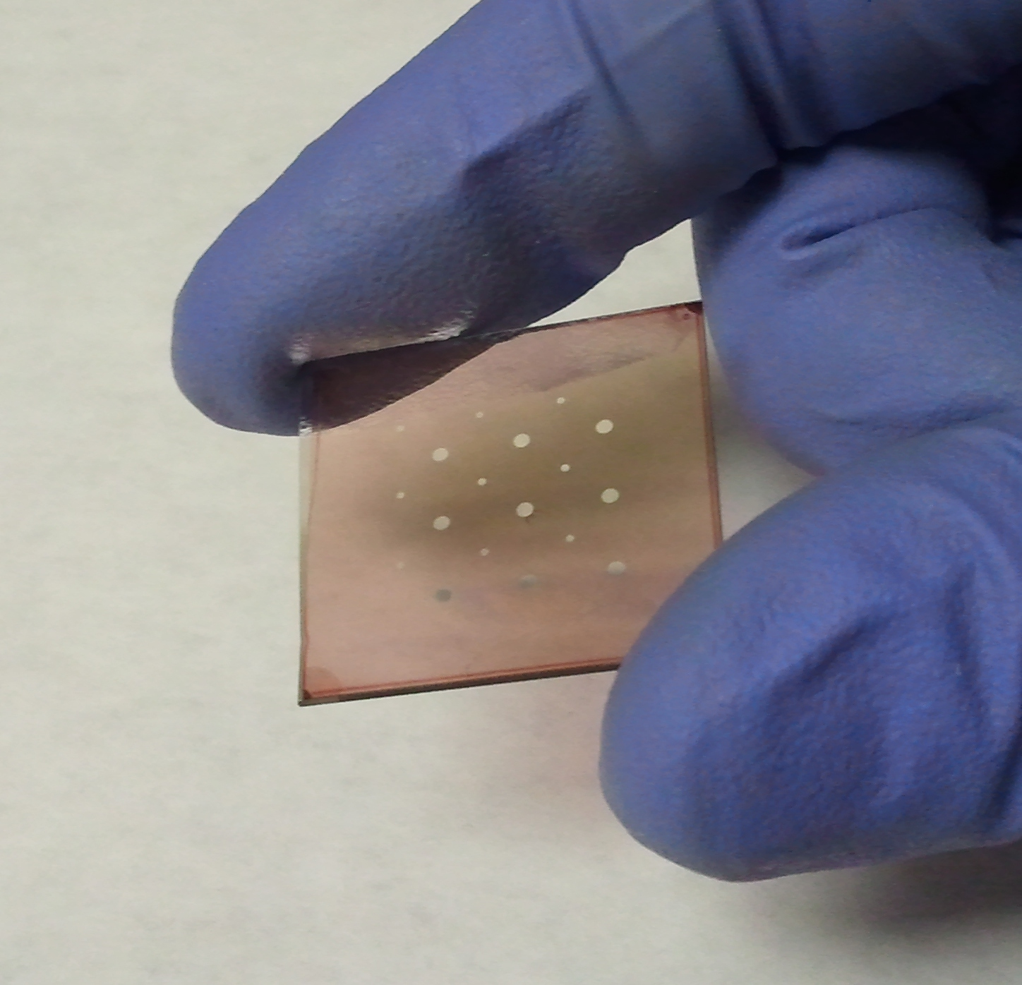 This is a polymer (Poly 3-hexylthiophene): PCBM blend (bulk heterojunction) solar cell. It is laboratory scale.